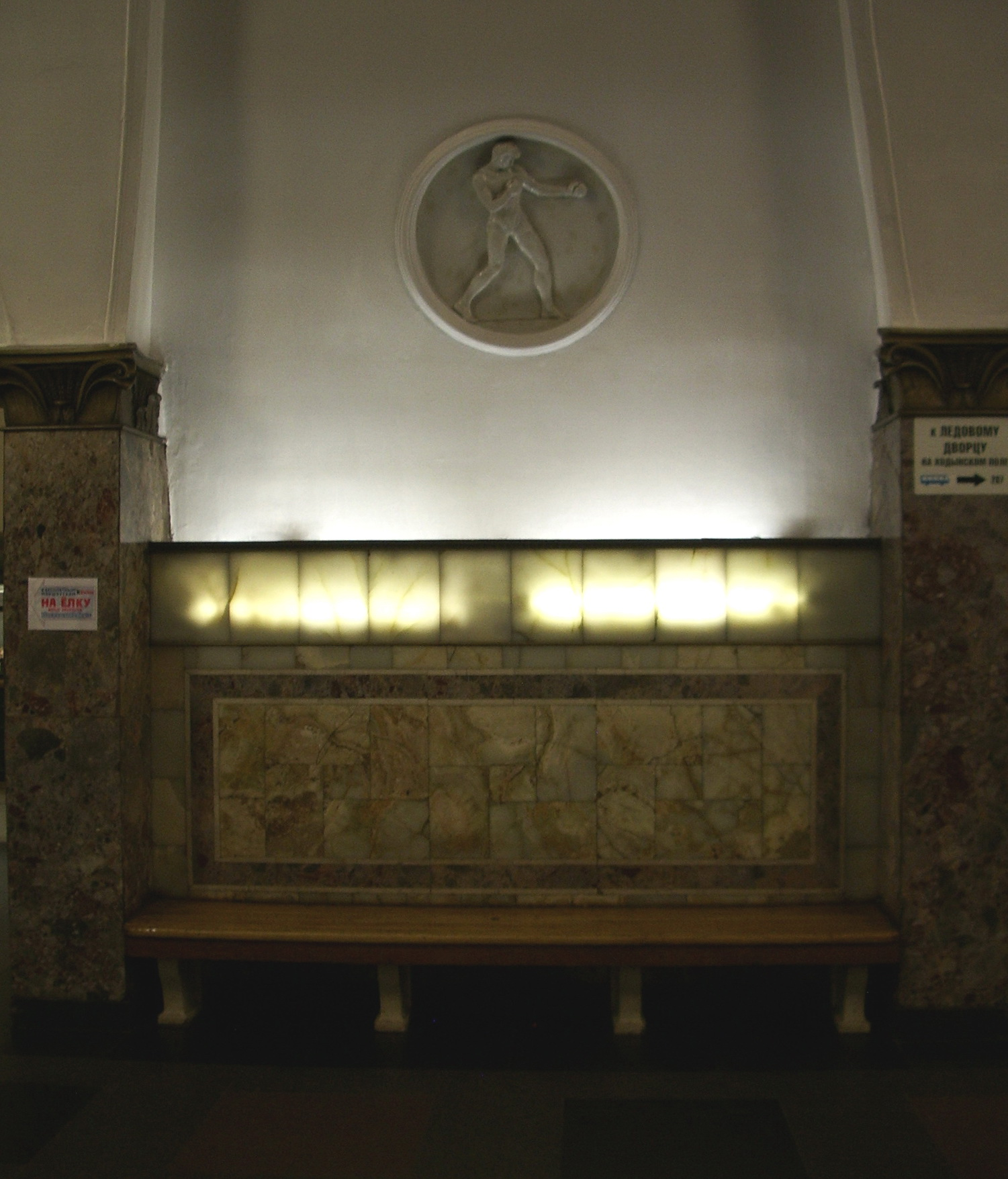 Bench at the "Dinamo" metro station. Moscow